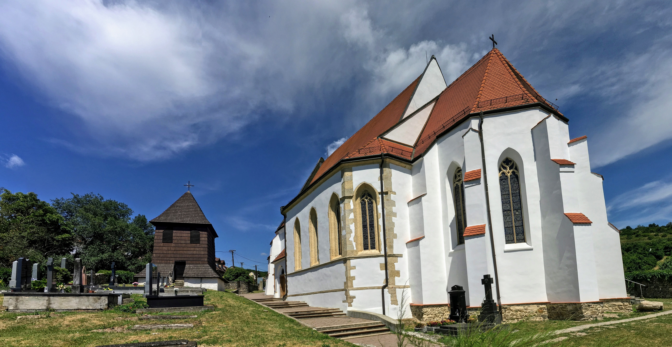 Parish church of Saint George in Svätý Jur